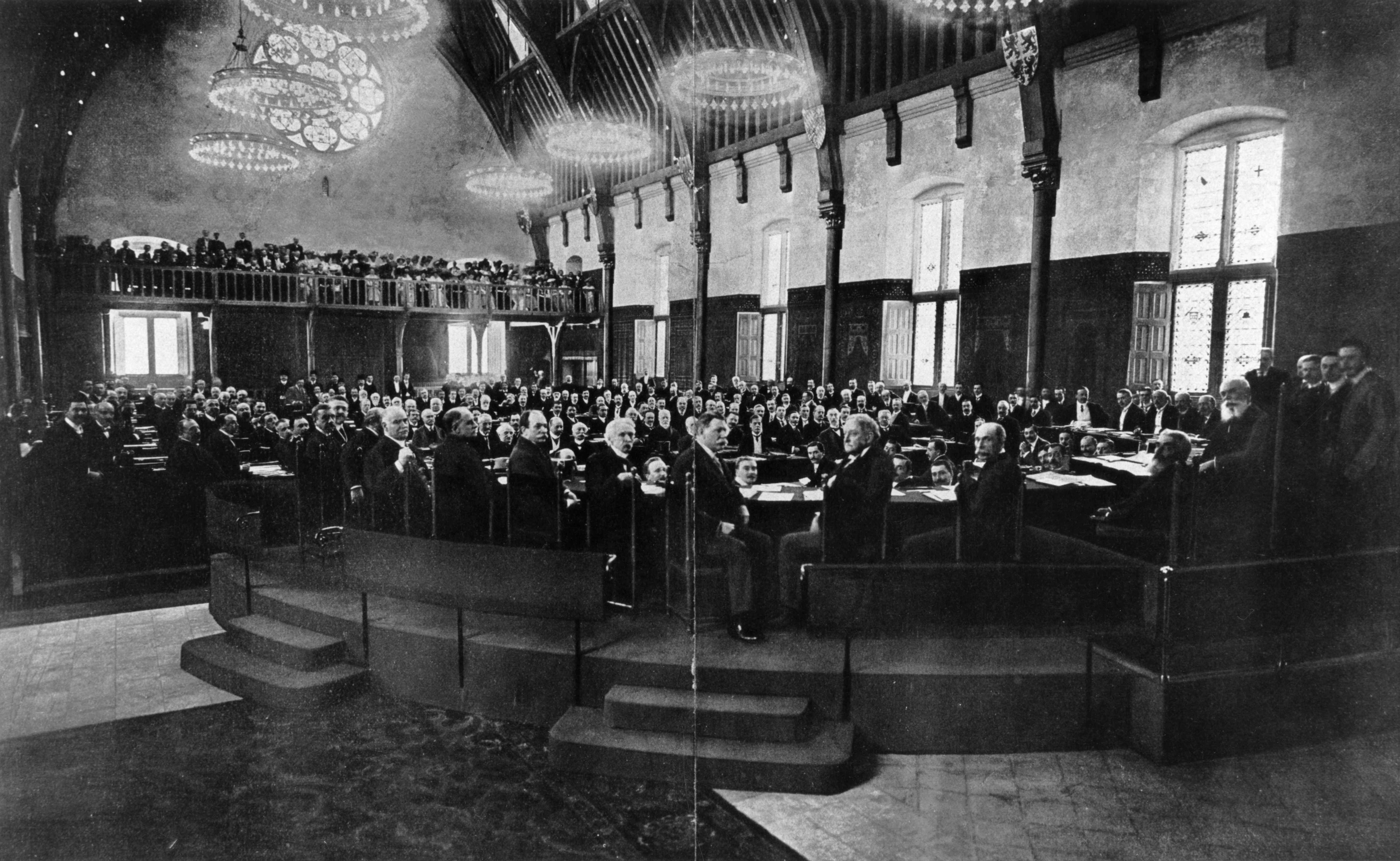 Picture taken during the Second Peace Conference at The Hague in 1907. Participants of the conference are sitting in a meeting in the Ridderzaal (Hall of Knights) in The Hague.